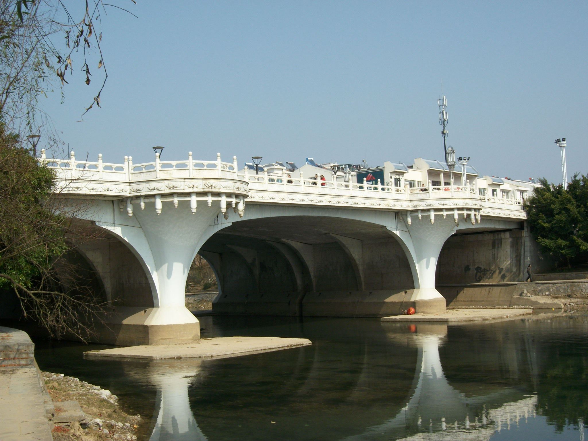 Qixia Bridge in Guilin.